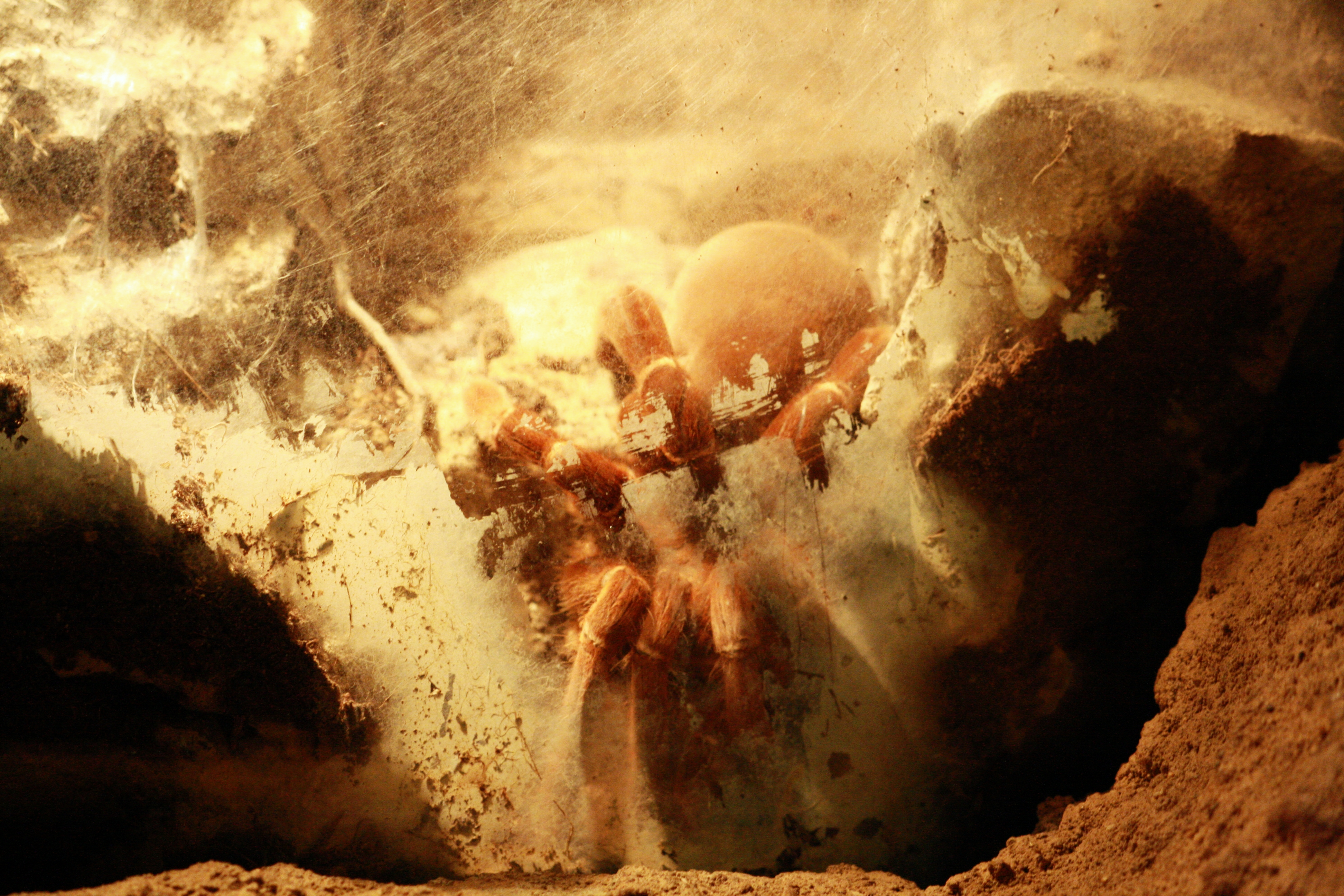 Pelinobius muticus (King baboon spider) at the Zoo Praha